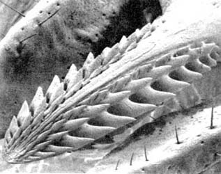 Hypostome of Ixodes holocyclus